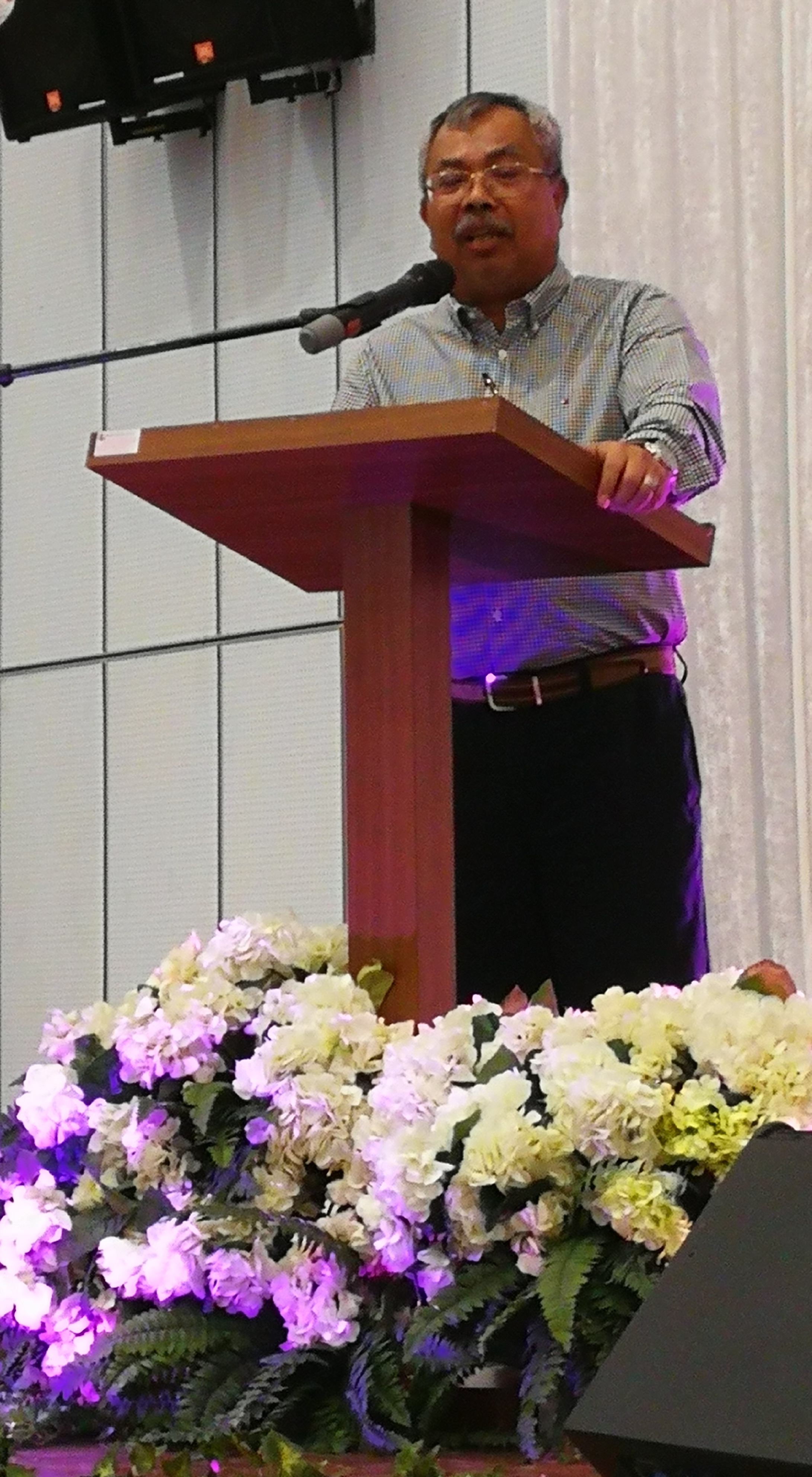 Pesuma32 Penutup KPUP